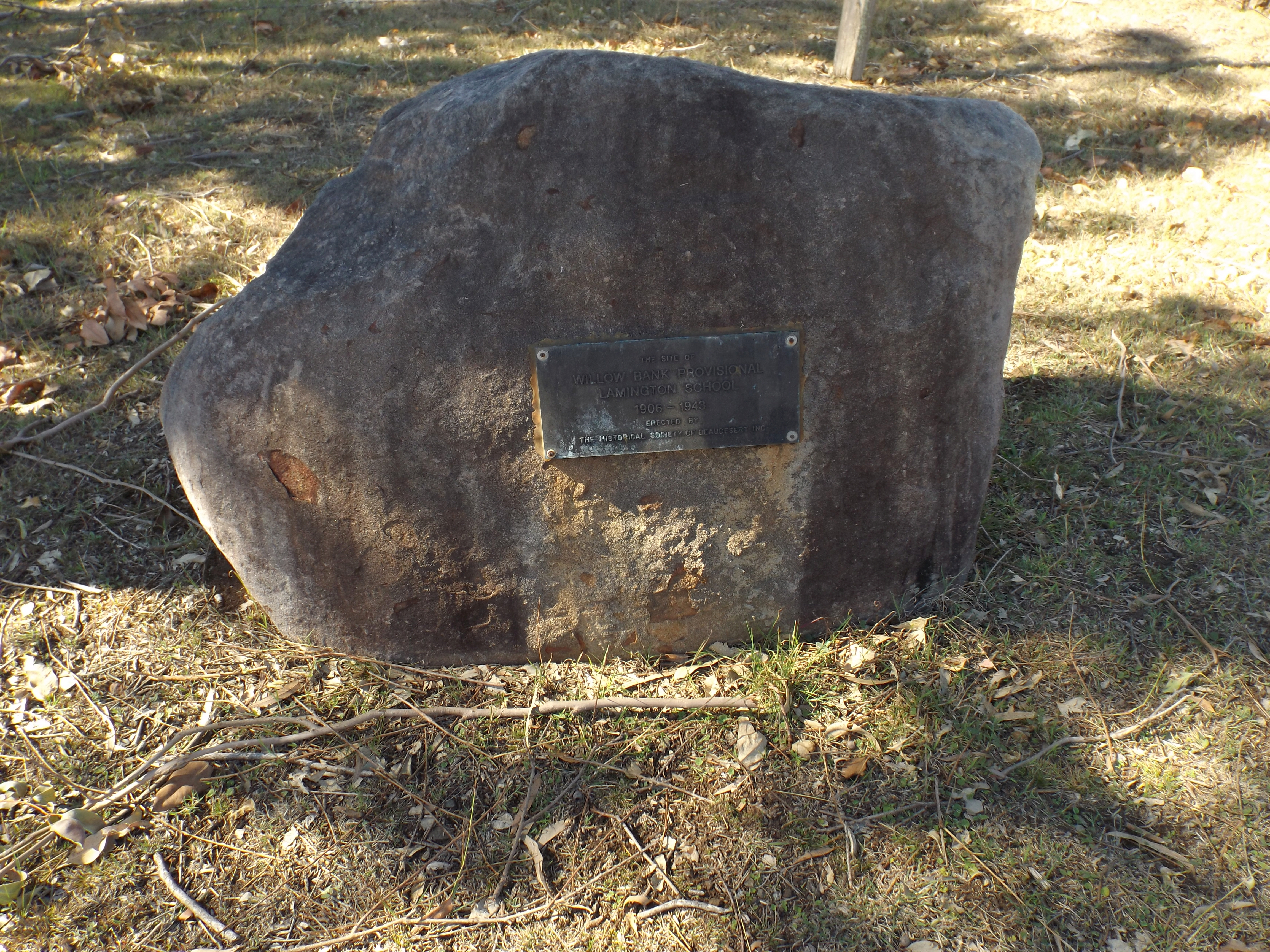 Photo of plaque along Kerry Road at Lamington, Scenic Rim Region, Queensland, Australia. The site was the location of Lamington State School.